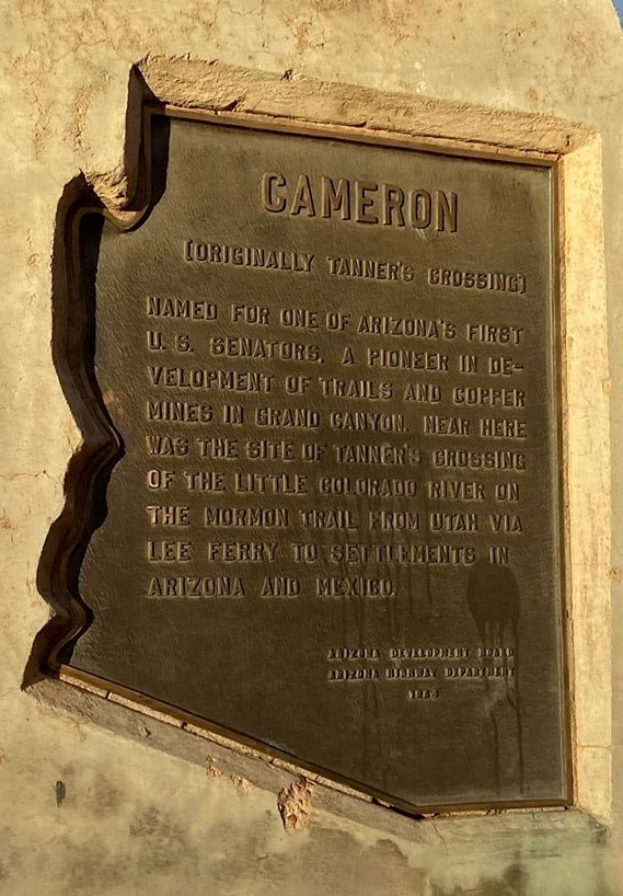 Cameron, Arizona's historic marker in Cameron, Arizona